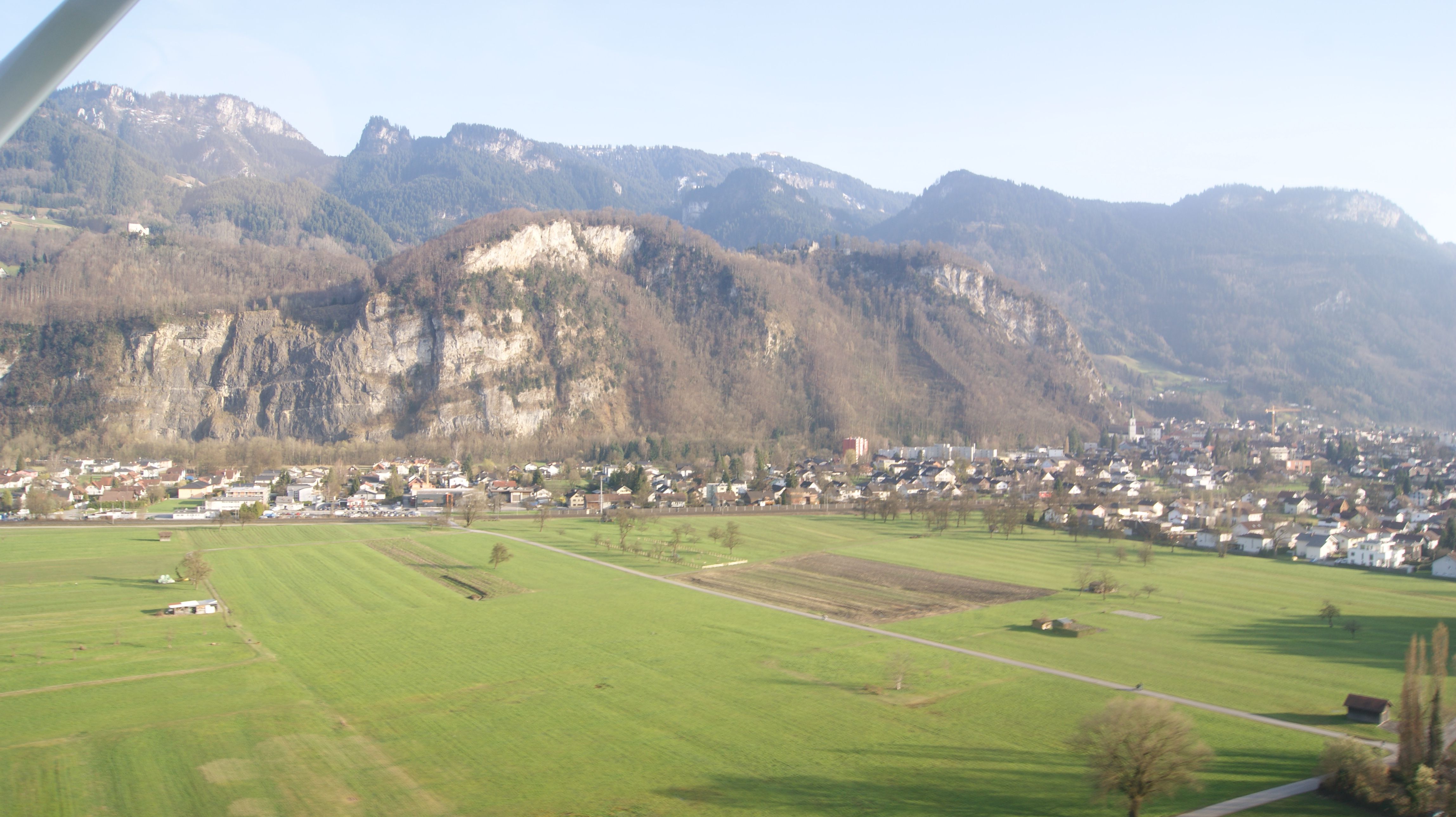 The Hill: Schlossberg in Hohenems. Left at the top the castle "Neu-Ems" (also: "Schloss Glopper") and on the right above the castle "Alt-Ems". Below the castle "Neu-Ems", the old querry "Oberer Steinbruch" in the district of Erlach (next to the district Oberklien) and above it the notch "Buggenau", which runs across the Schlossberg.